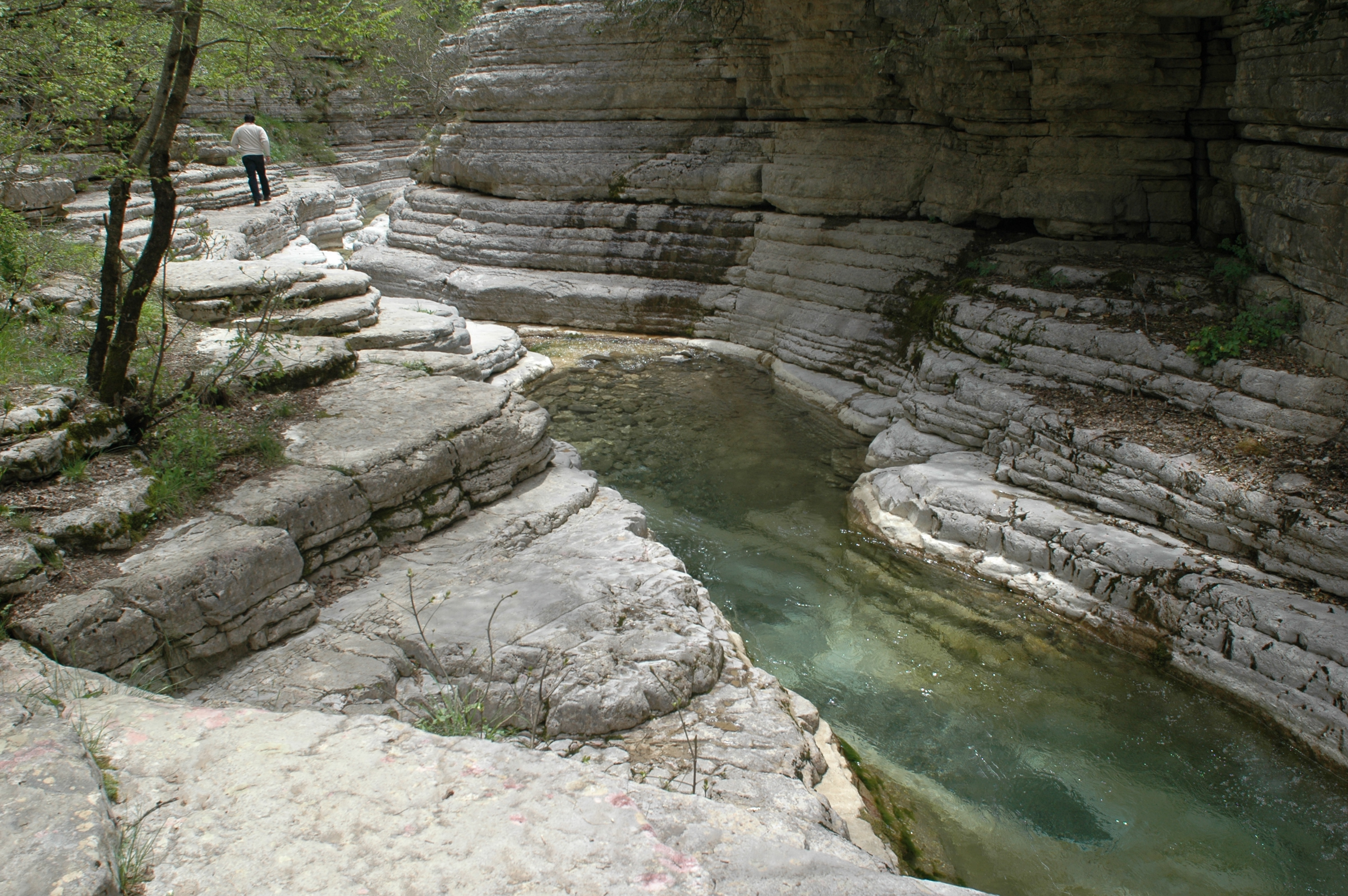 Some of the natural pools of Papingo, Vikos-Aoos National Park, Epirus, Greece.